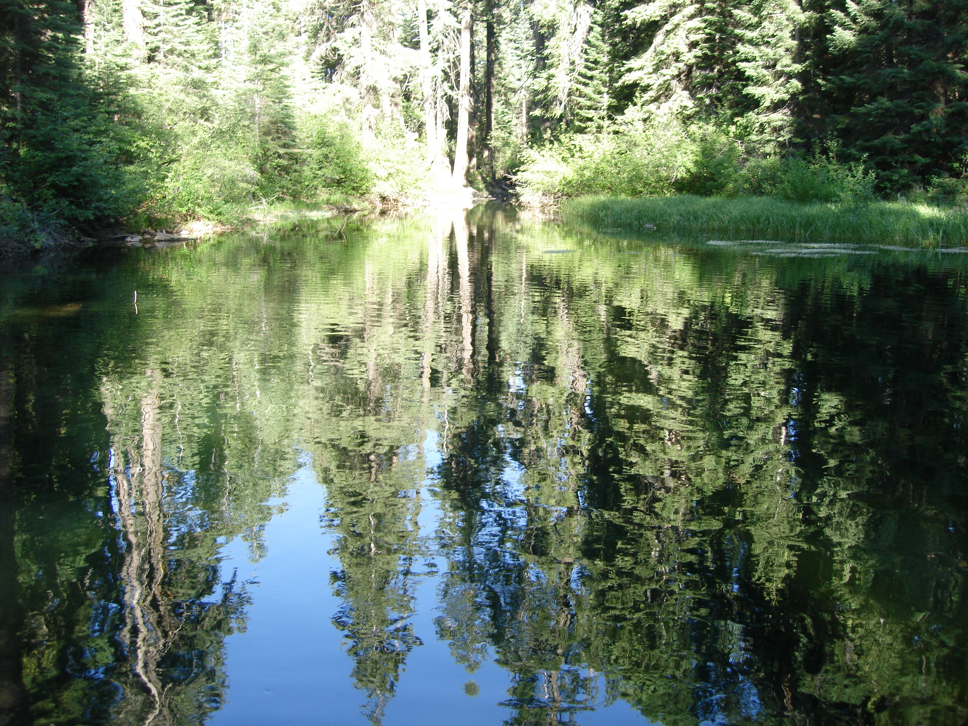 Reflection of trees seen in a crystal clear mountain lake located on the Modoc National Forest. Located in the South Warner Wilderness, Modoc County, northeastern California.